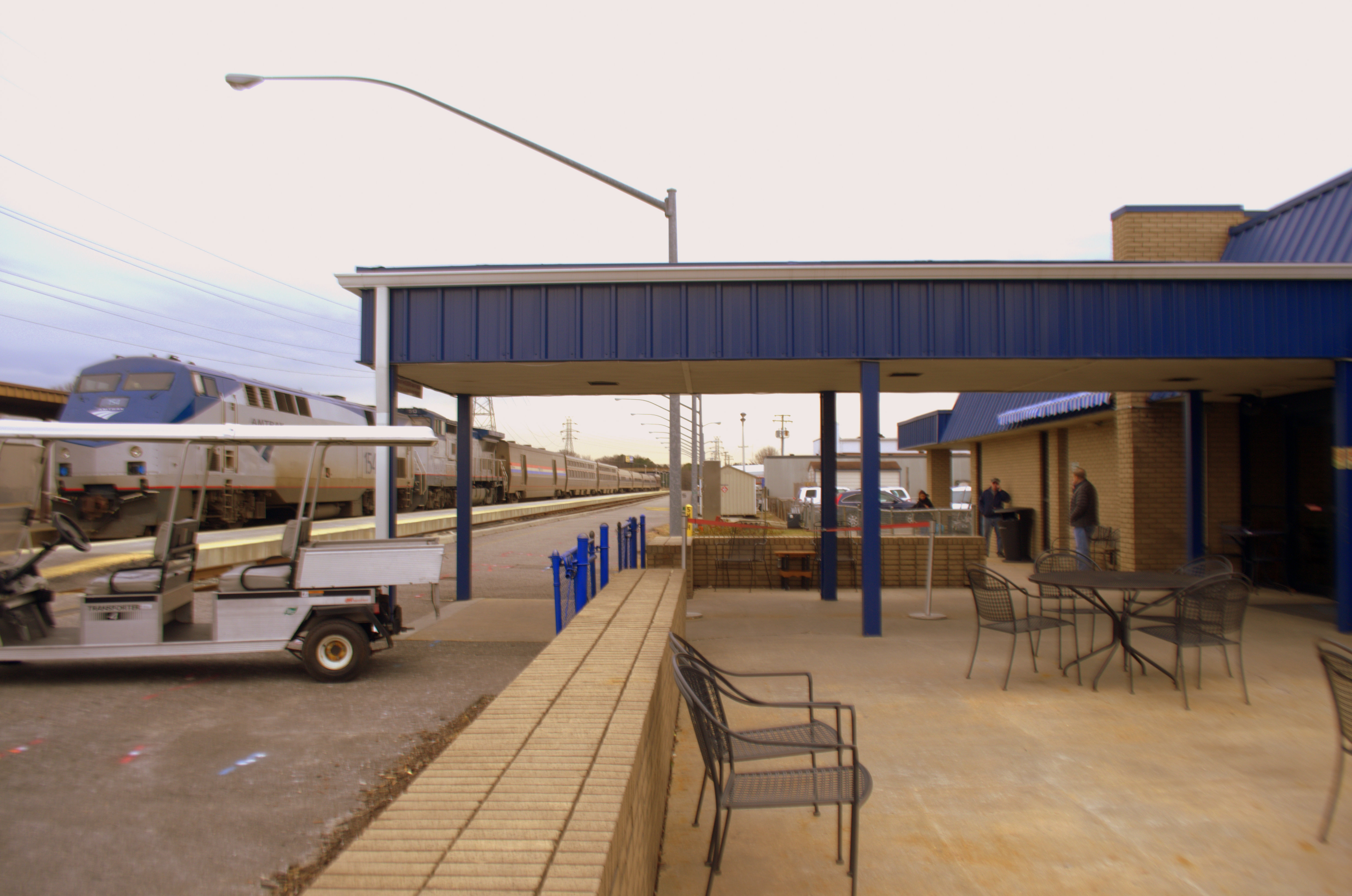 The northbound Silver Star at Richmond Staples Mill Road station in February 2016